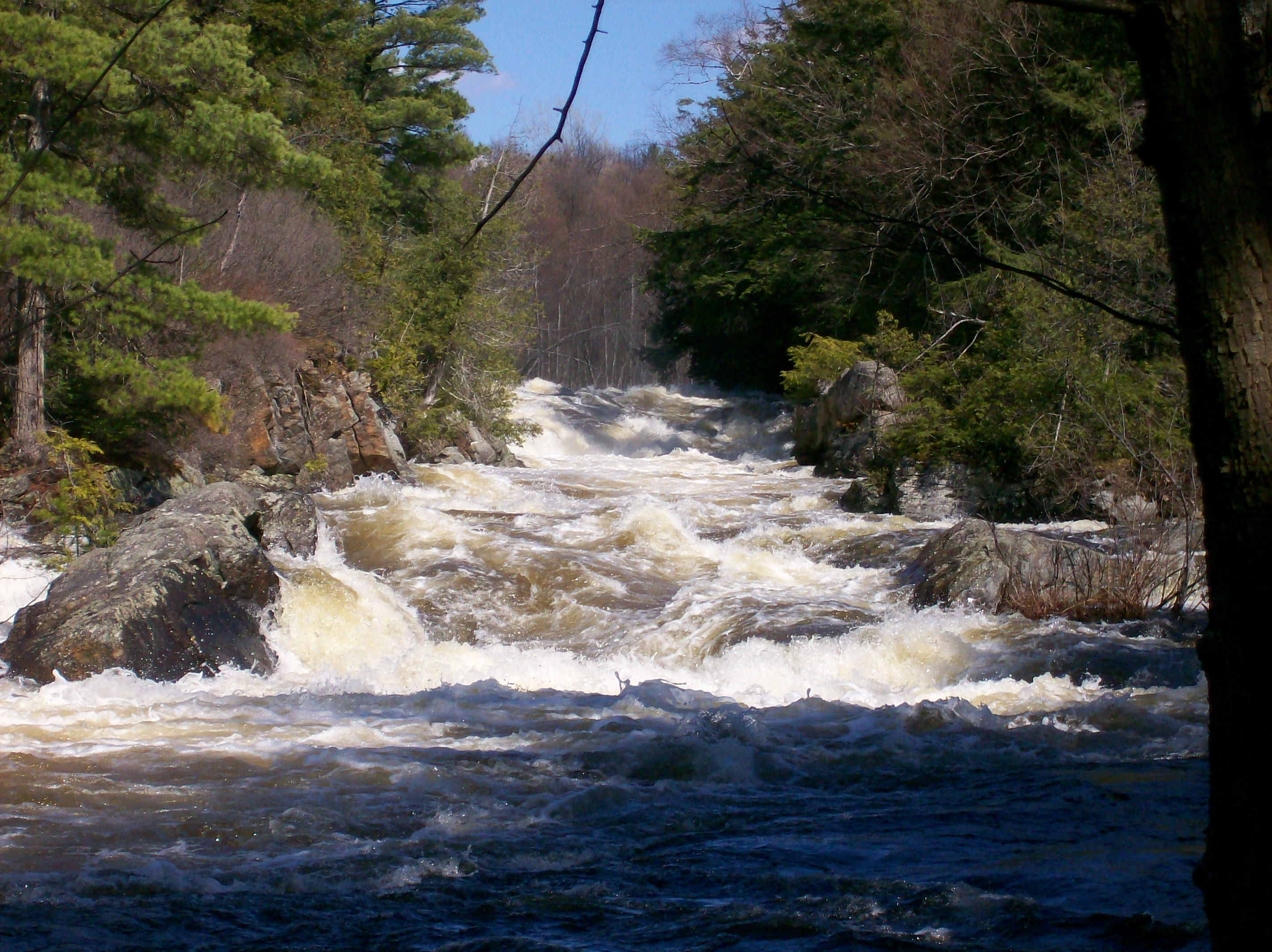 I took this photo.